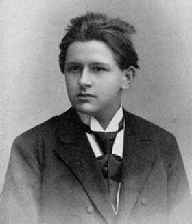 Joseph Marx (1882–1964) in 1903.